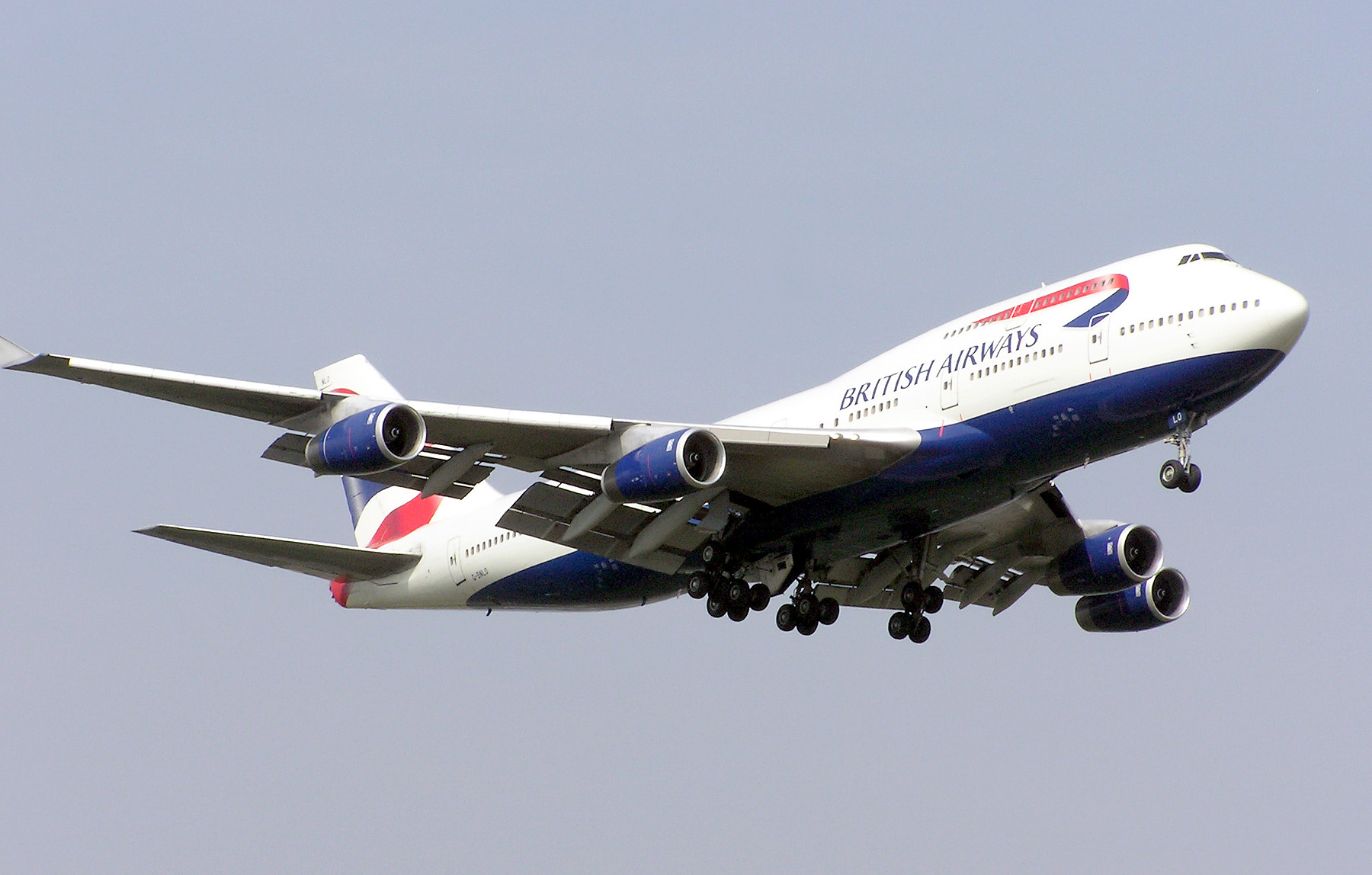 British Airways Boeing 747-400 (G-BNLO) landing at London Heathrow Airport, England.